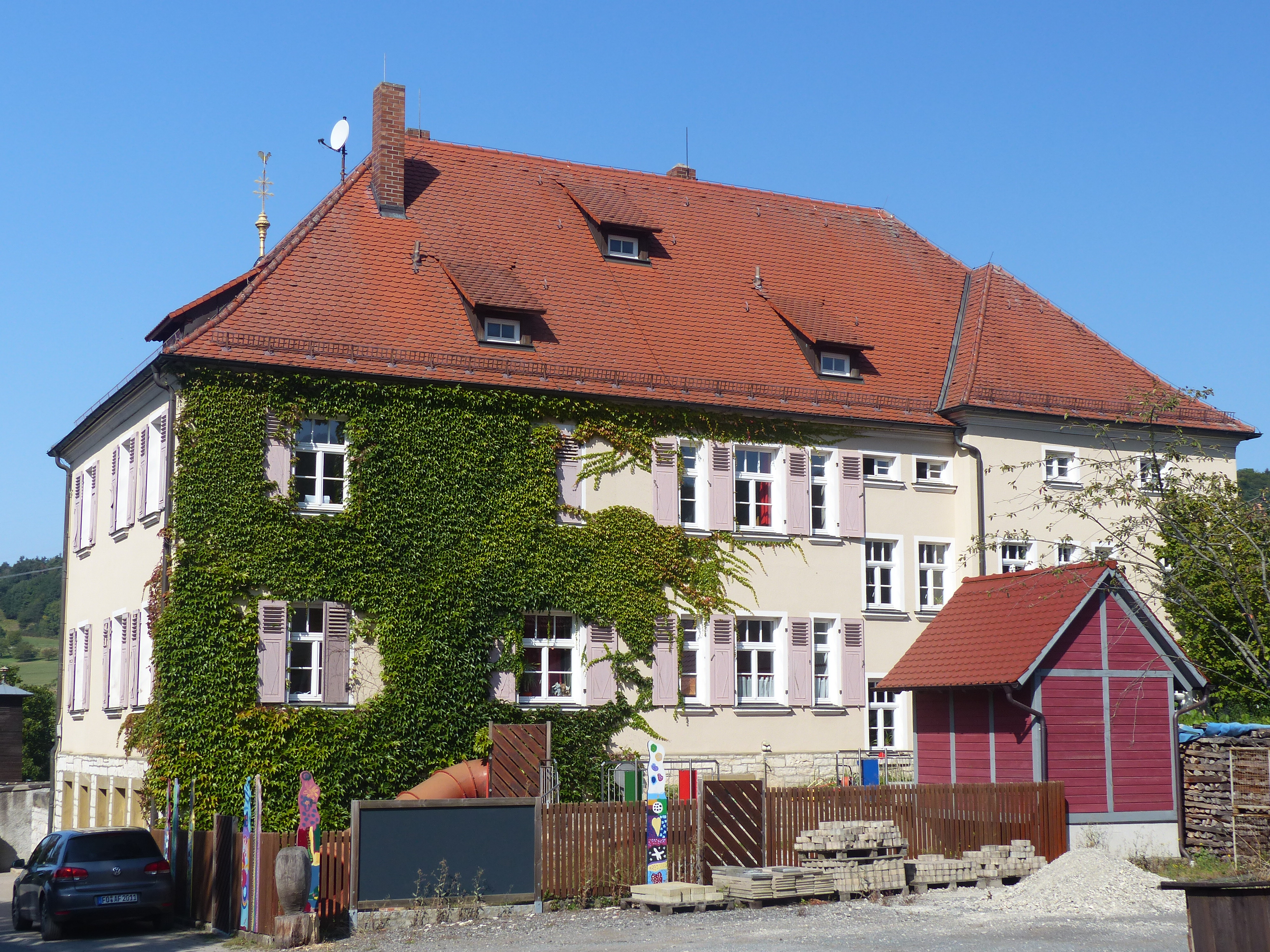 A former schoolhouse in the village Drügendorf, a district of the municipality of Eggolsheim.